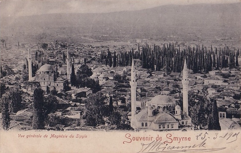 Old postcard picture of Magnésie du Sipyle (Manisa), Turkey. Taken in the 1900s. The two mosques are Muradiye (1586) and Sultan (1522).